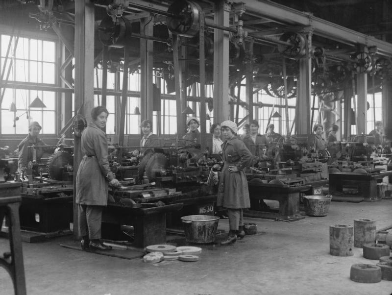 Women war workers sawing wood specimens for testing at the New Gun Factory, Woolwich Arsenal, London.